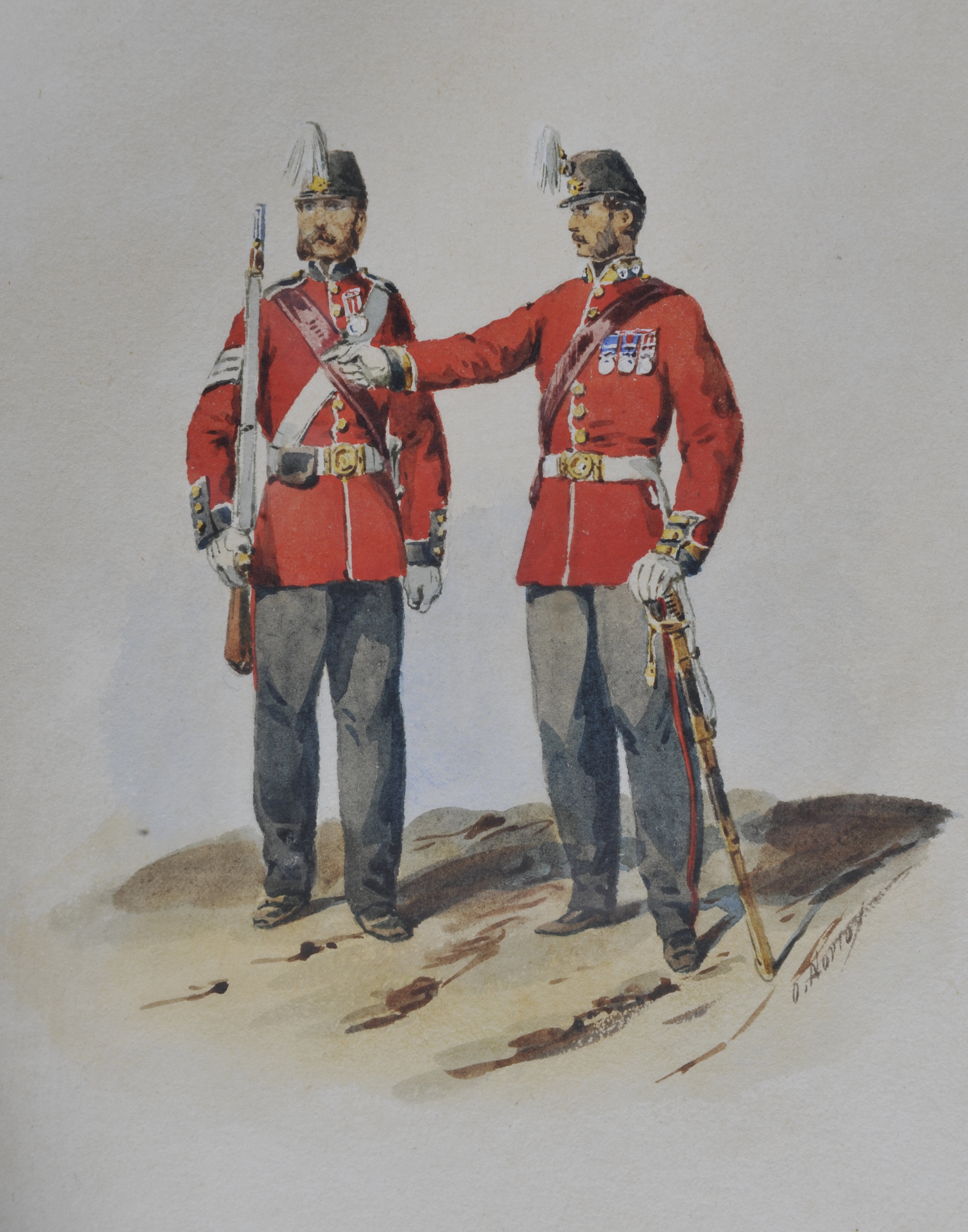 Soldiers of the 1st European Bengal Fusiliers, pre-1862. Painting formerly in possession of Lt. Col. George Gladwin Denniss II (1821-1862) of that regiment. Now in possession of Peter Chantler, South Molton (his great-great-grandson).